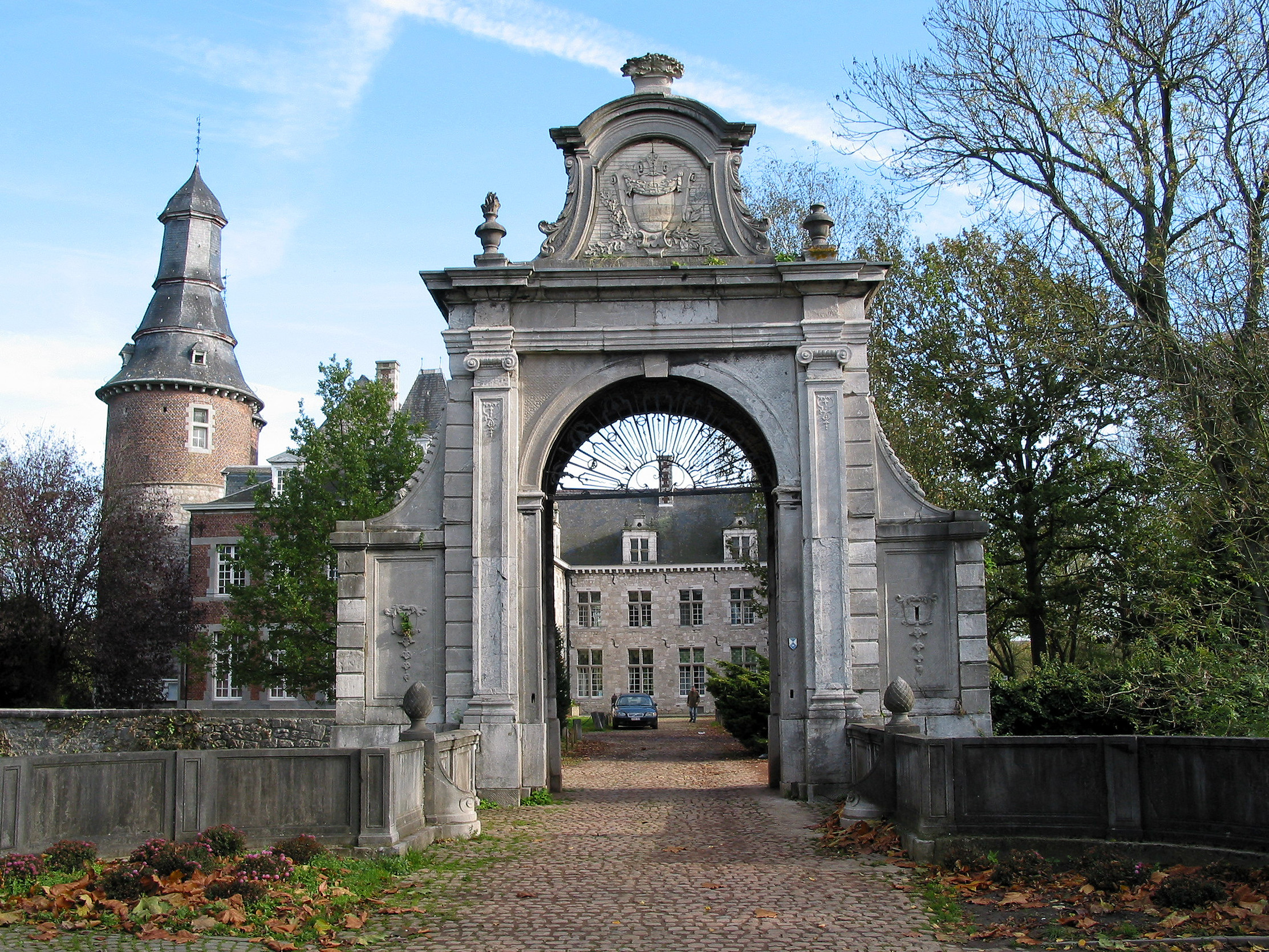 Fontaine-l'Évêque (Belgium), monumental gate of the ancient castle of the lords of Fontaine (XIIIth century) restored by the architect A. Brigode and turned into City Hall in 1968.